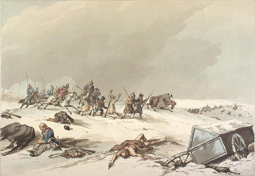 Retreat of the French Grand Army from Moscow, intercepted by Russian Cossack, 1812. The Inscribed to the Wisdom, Policy & Valour, of the Russian Government & Army. // By Edwd Orme. // London Edwd Orme Bond Street 30 Jan 1813.